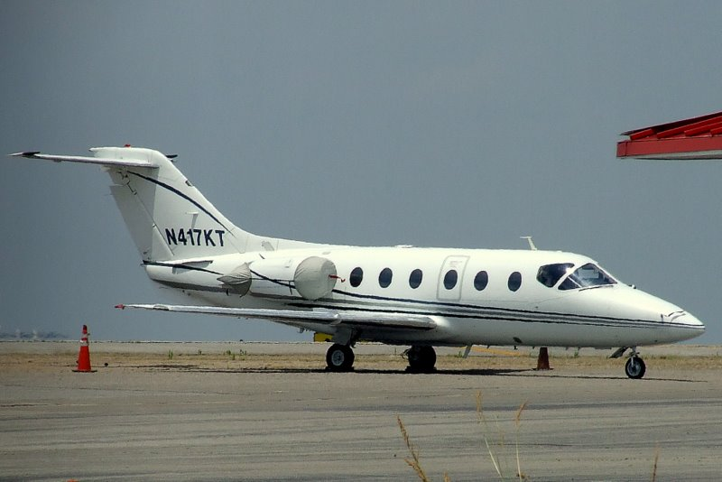 A Mitsubishi MU-300 Diamond, N417KT (c/no. A083SA), at Nashville International Airport.